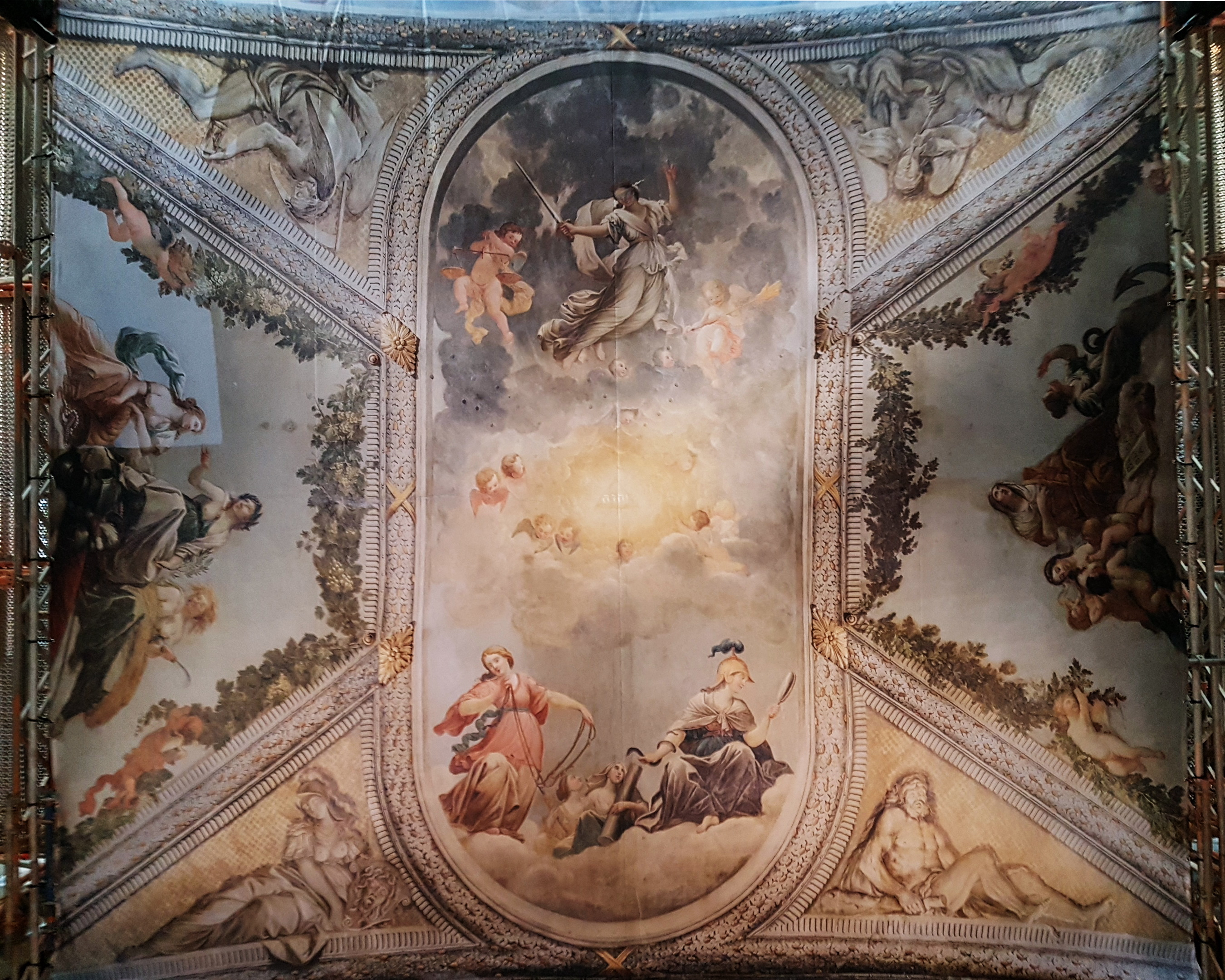 Painted ceiling of the great hall (Plein) in the 17th-century town hall in Maastricht, Netherlands.